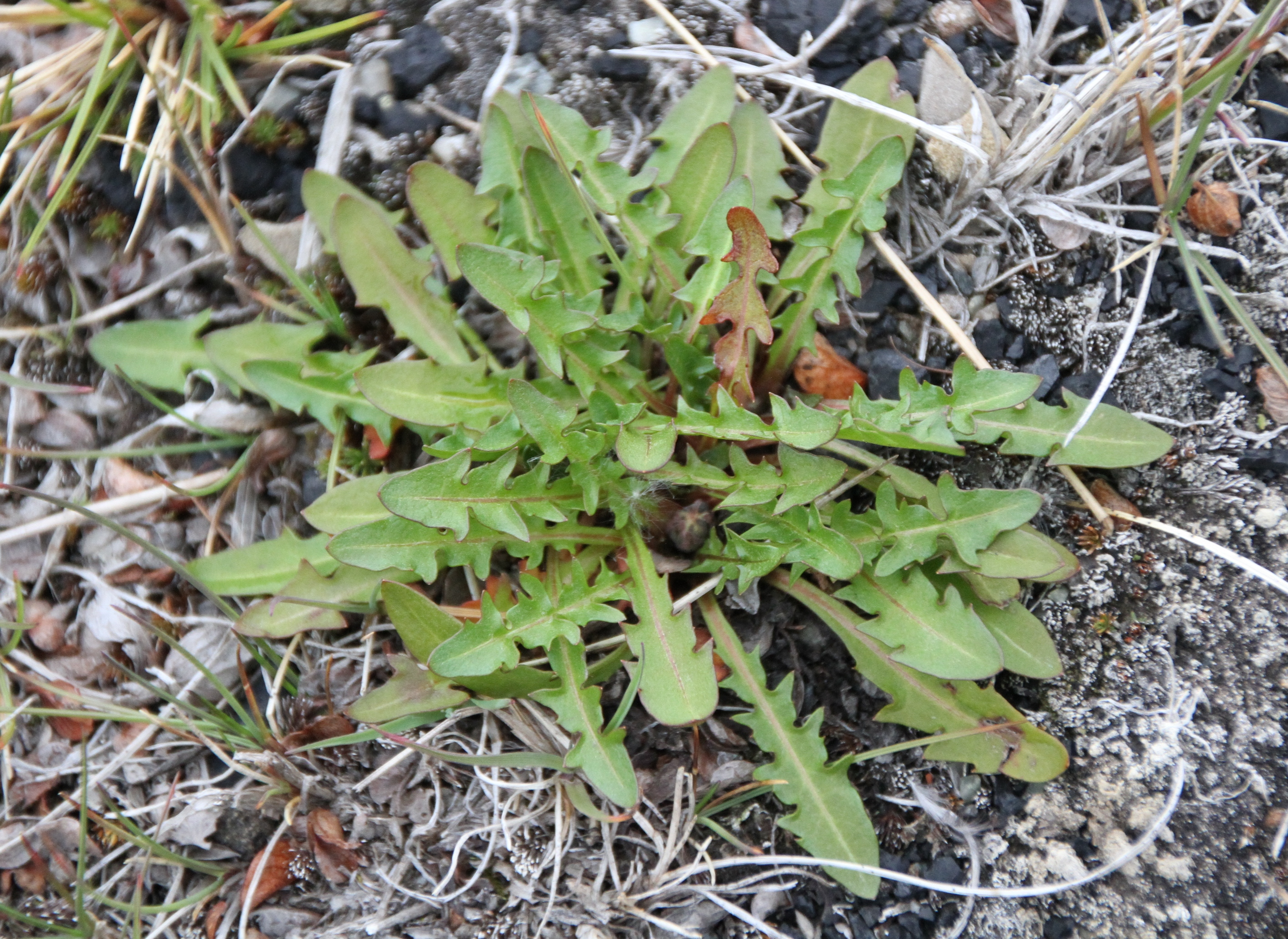 Flowers observed close to Longyearbyen at central Spitsbergen, Svalbard.